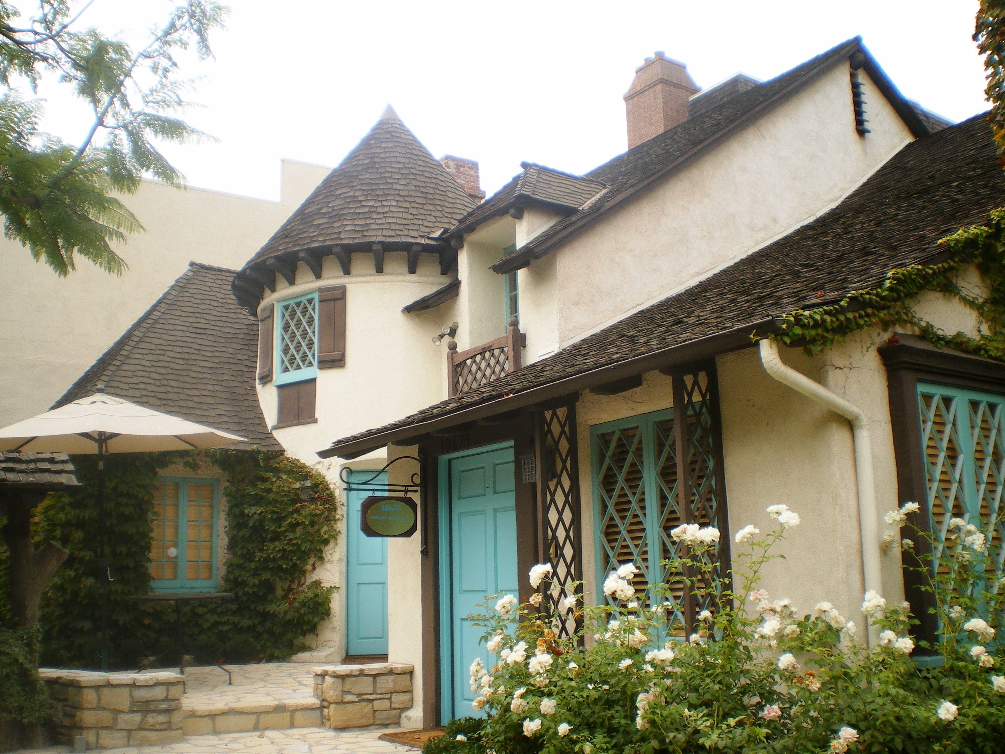 The Grove, 10669-10683 Santa Monica Blvd., Westwood, Los Angeles, California